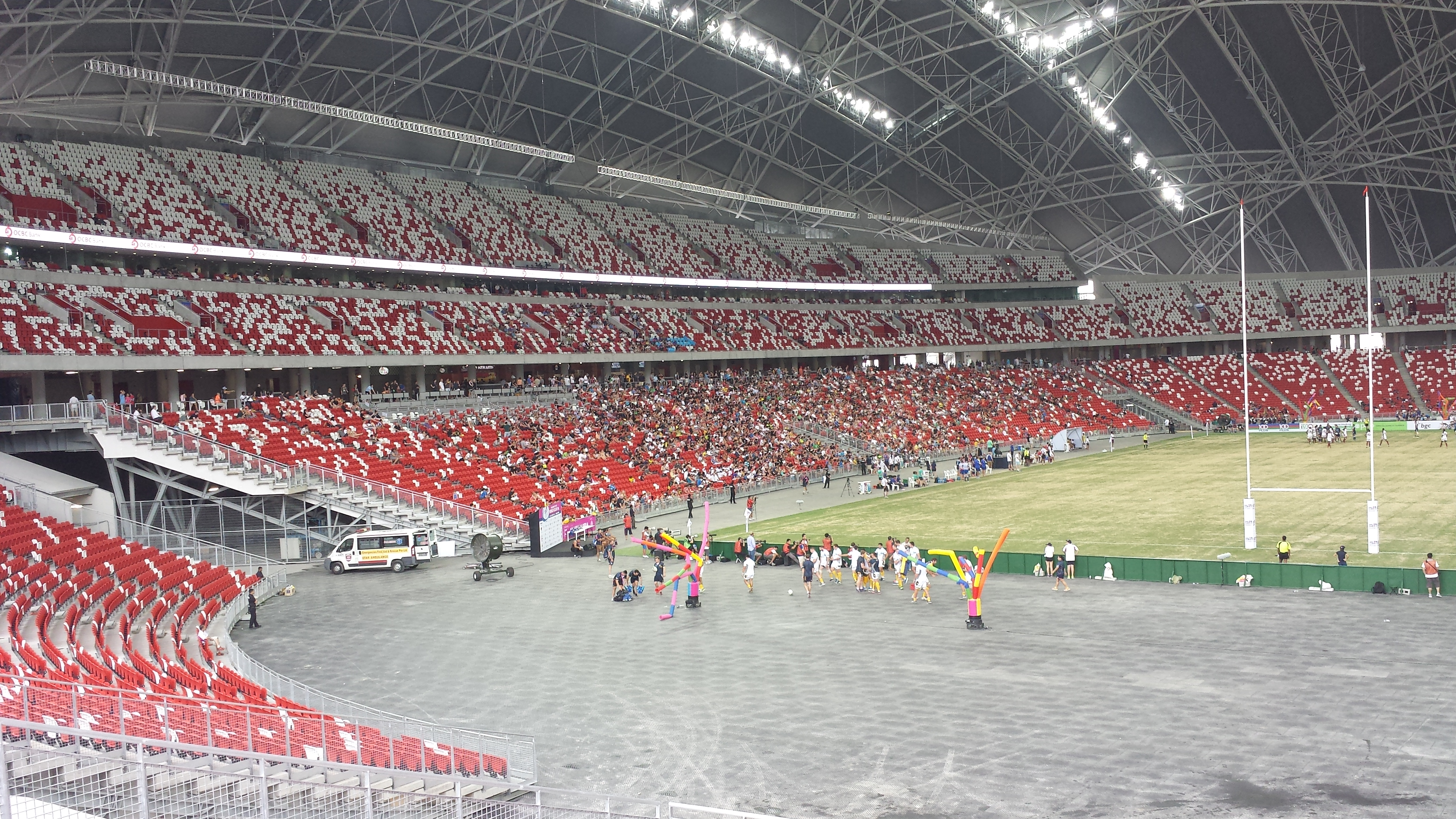 Spectators at the World Club 10s Rugby on 22 June 2014 in the first sporting event held at the National Stadium.